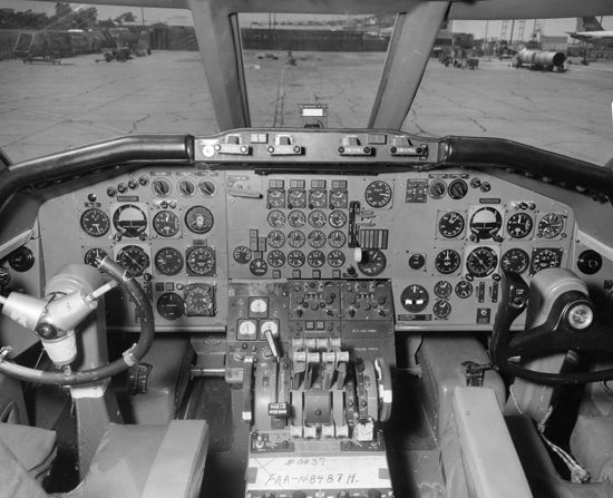 The flight deck of a Convaire 880